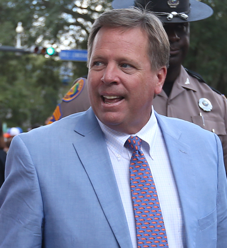 Jim McElwain during Gator Walk, September 2016